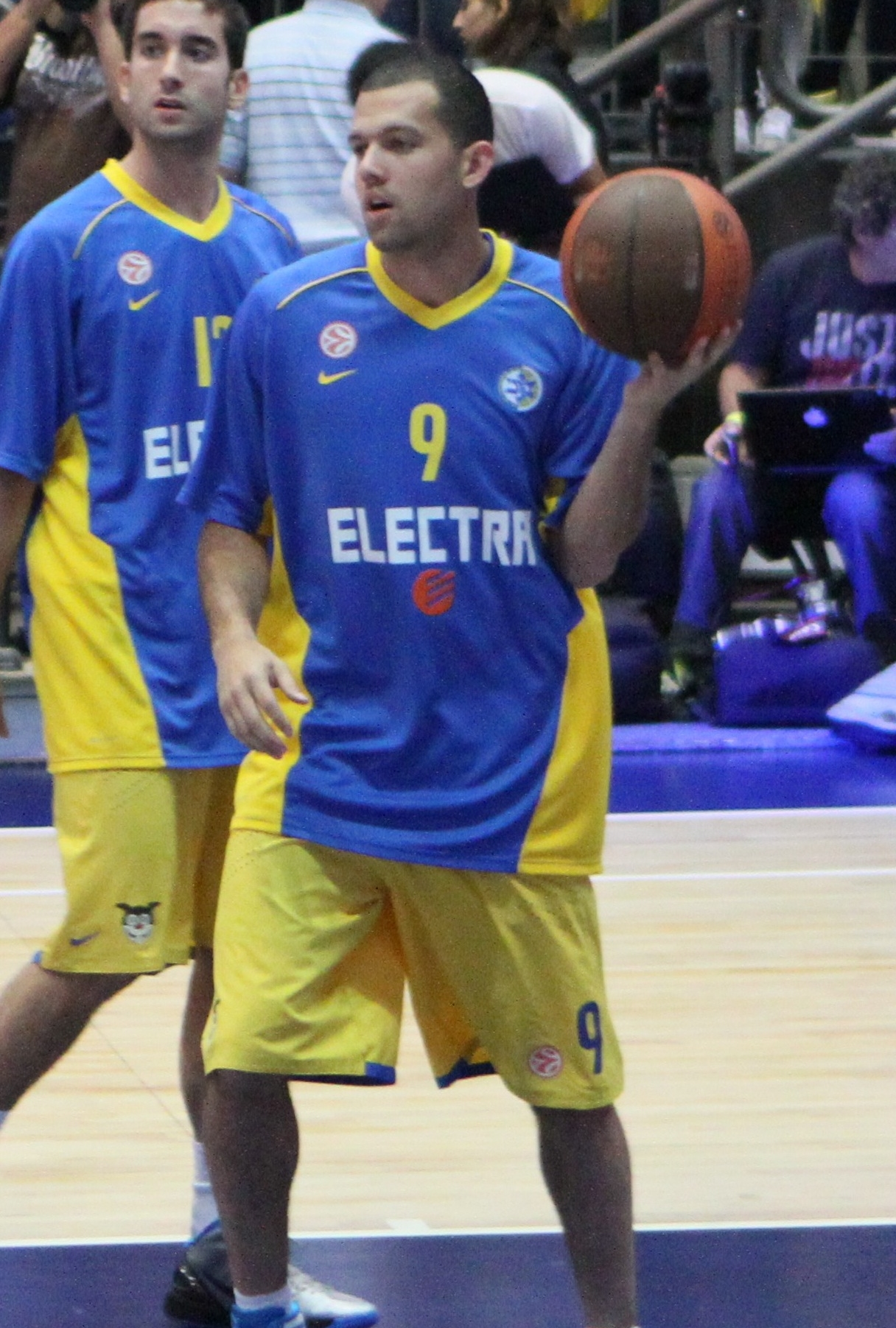 Jordan Farmar playing with Maccabi Tel-Aviv at Nokia Arena, Tel Aviv